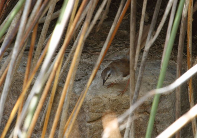 Namaqua warbler (Phragmacia substriata) at Sutherland, Northern Cape, South Africa. In typical habitat; dense cover in a Karoo watercourse.